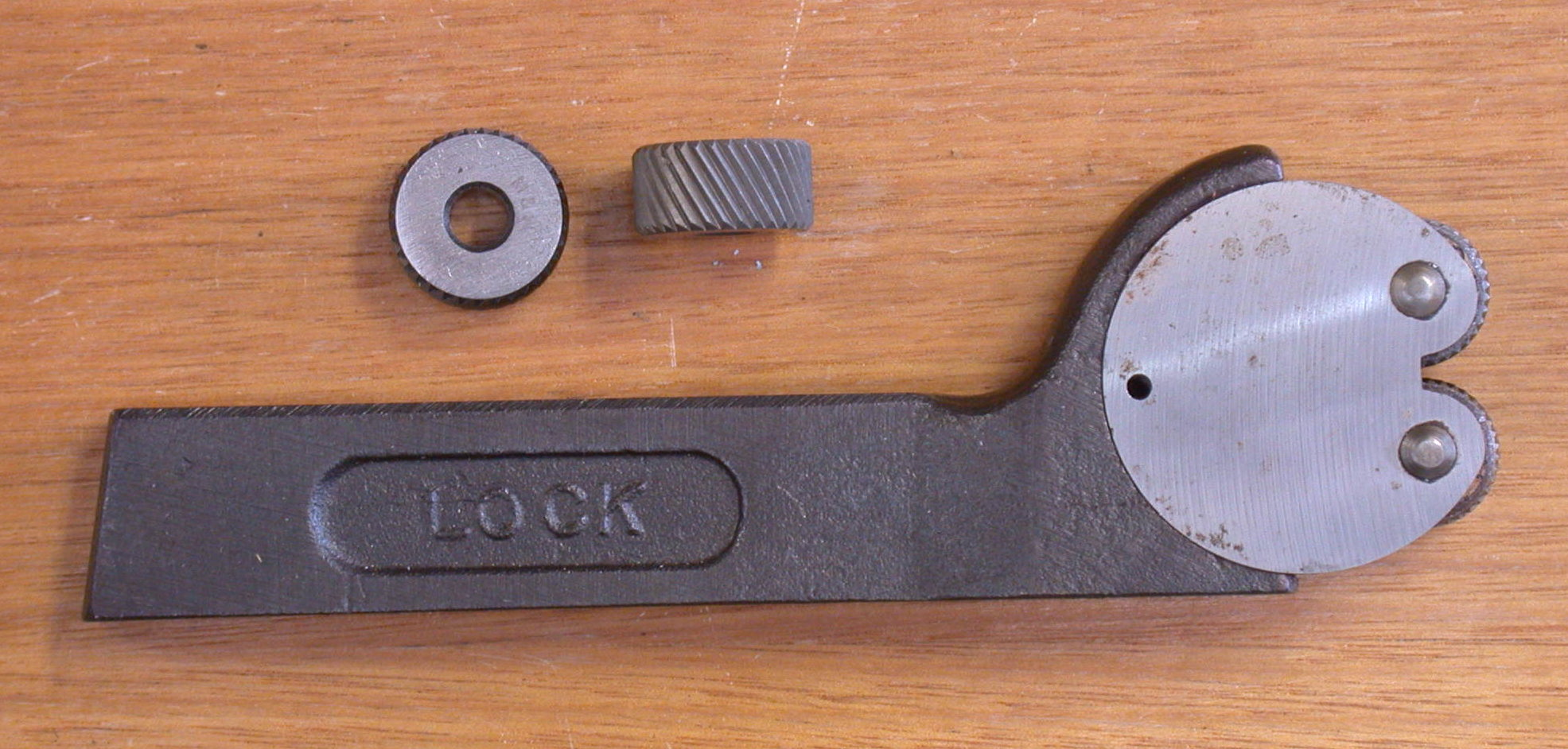 Knurling tool: produces a diamond pattern on the workpiece